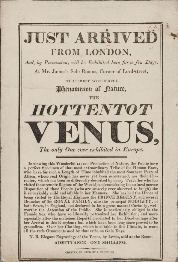 advertisement for the exhibition of Saartjie Baartman in London